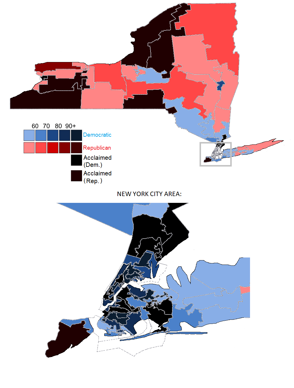 Results of the 2018 New York Senate election.Candidates can run on multiple parties in New York; the shading is the sum of votes a candidate received for all parties, although only the main party is used for shading. Simcha Felder is considered a Democrat here despite his tenuous relationship with that caucus.